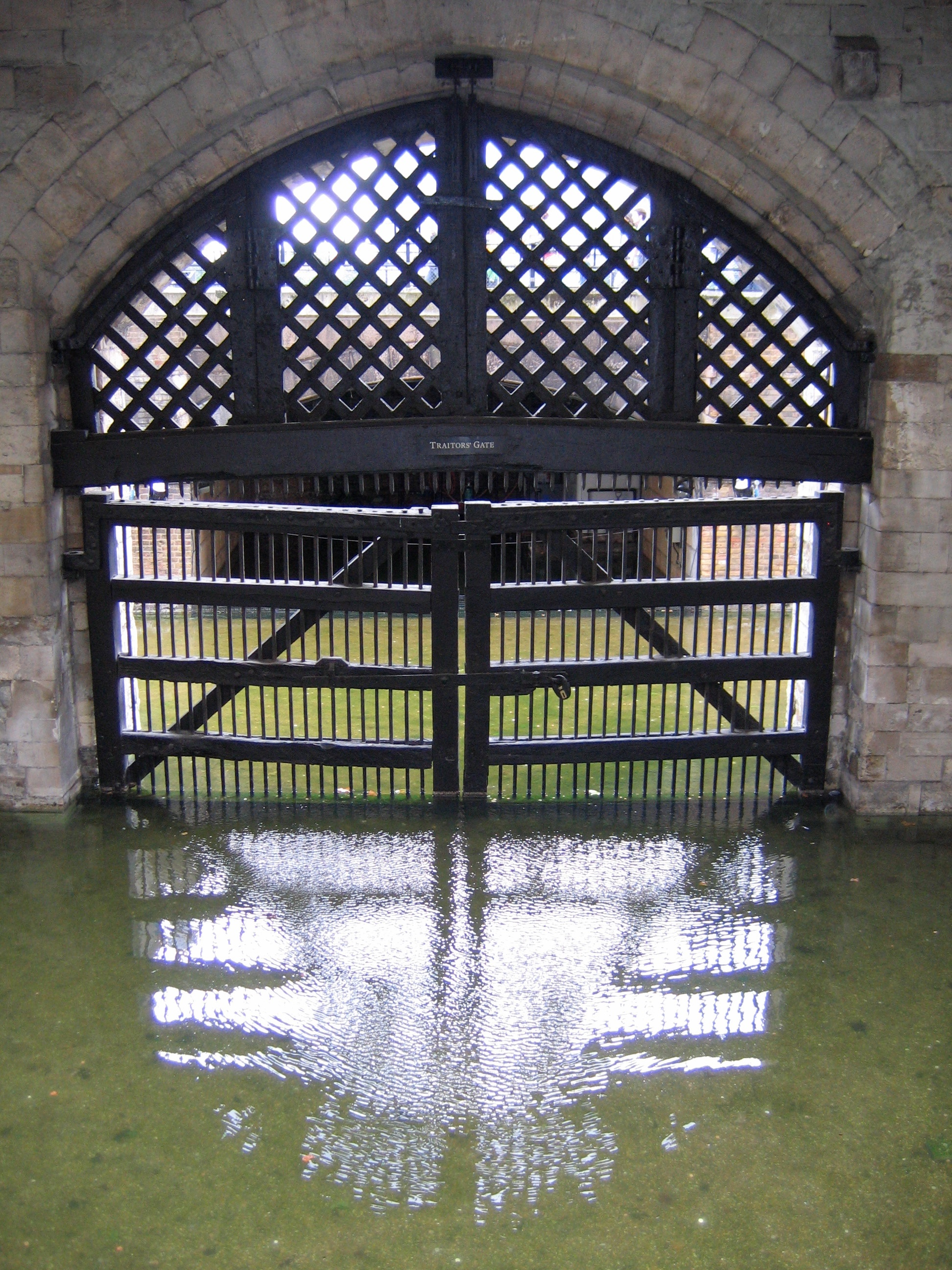 Traitor's Gate, London, England.